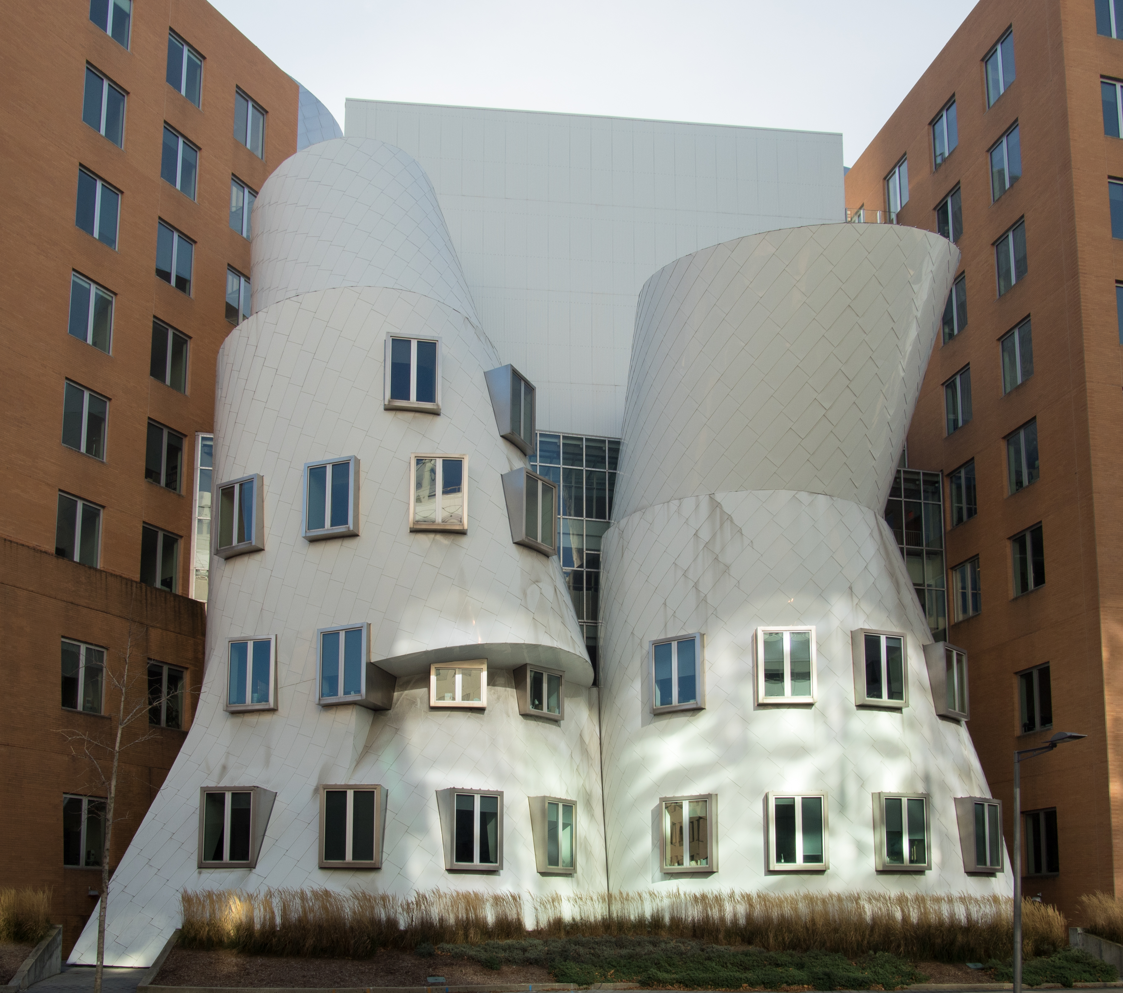 Stata Center at MIT